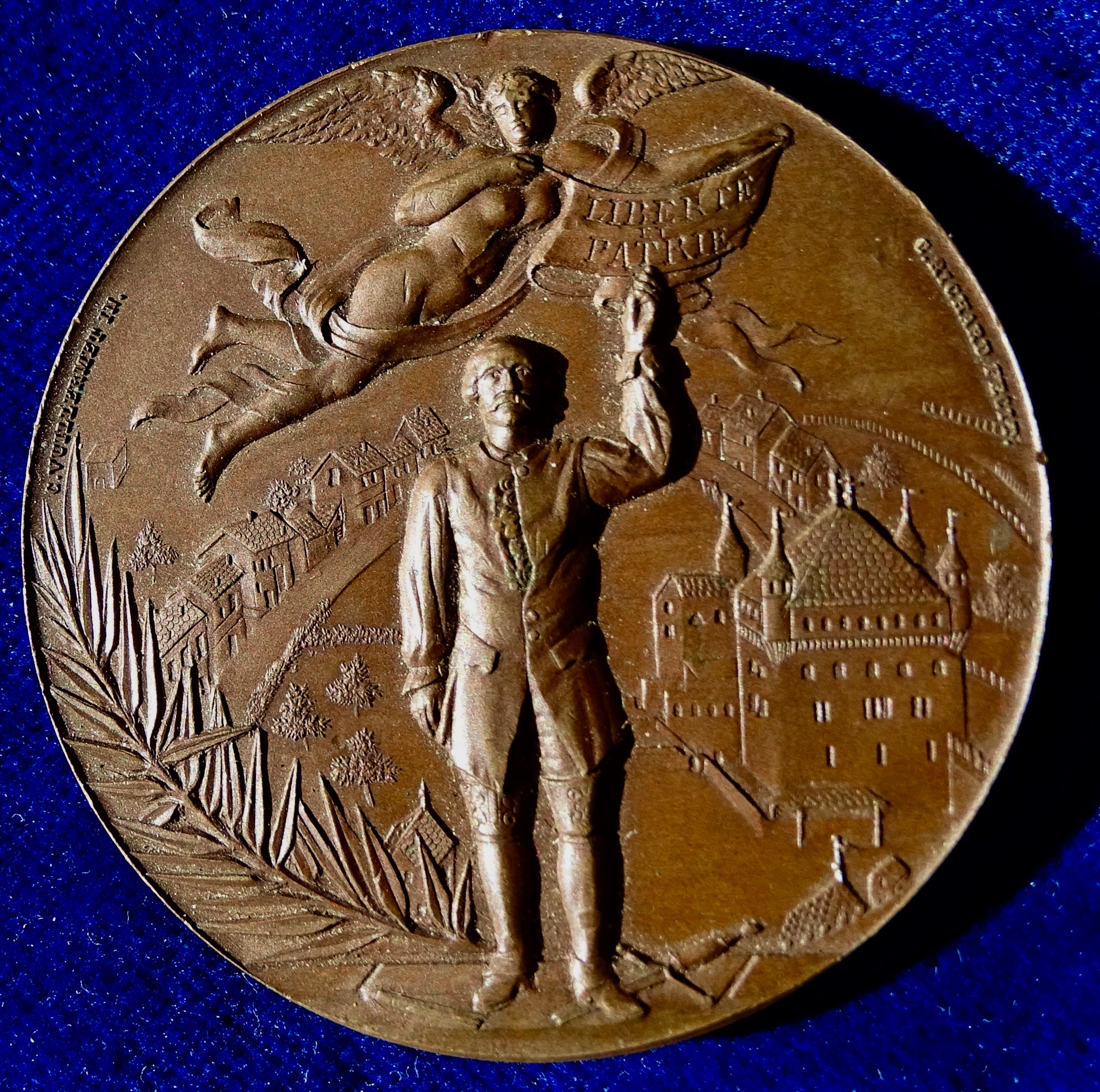 Lausanne, Switzerland Shooting Bronze Medal 1894 Medallion d. = 45 mm 2 lines on scroll held by flying angel above a man pointing his left hand upwards: "LIBERTE ET PATRIE". Buildings in the background. / Swiss Cross between 2 eagle heads of the shield of Vaud. Surrounding: "* TIR CANTONAL VAUDOIS 1894 * LAUSANNE *". Martin 946; Krause 329; Richter 1591d; Forrer VI, p. 325 Condition: EXTREMELY FINE+.